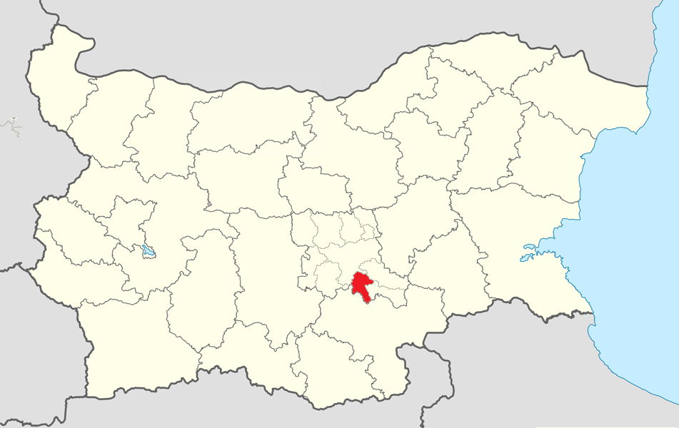 Location map of Opan Municipality within Bulgaria and Stara Zagora Province